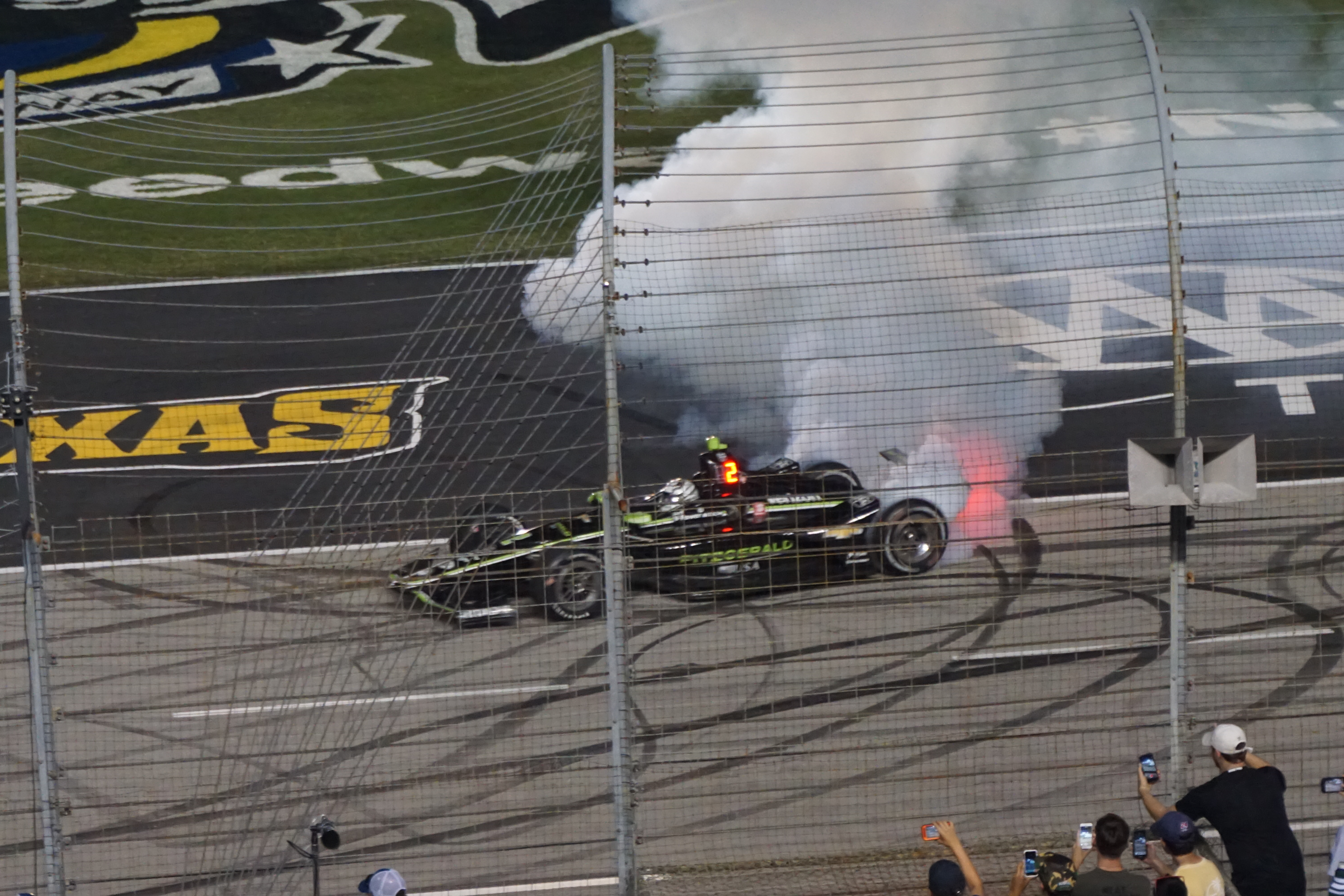 Josef Newgarden celebrating after winning the 2019 DXC Technology 600 at Texas Motor Speedway in Fort Worth, Texas (United States).